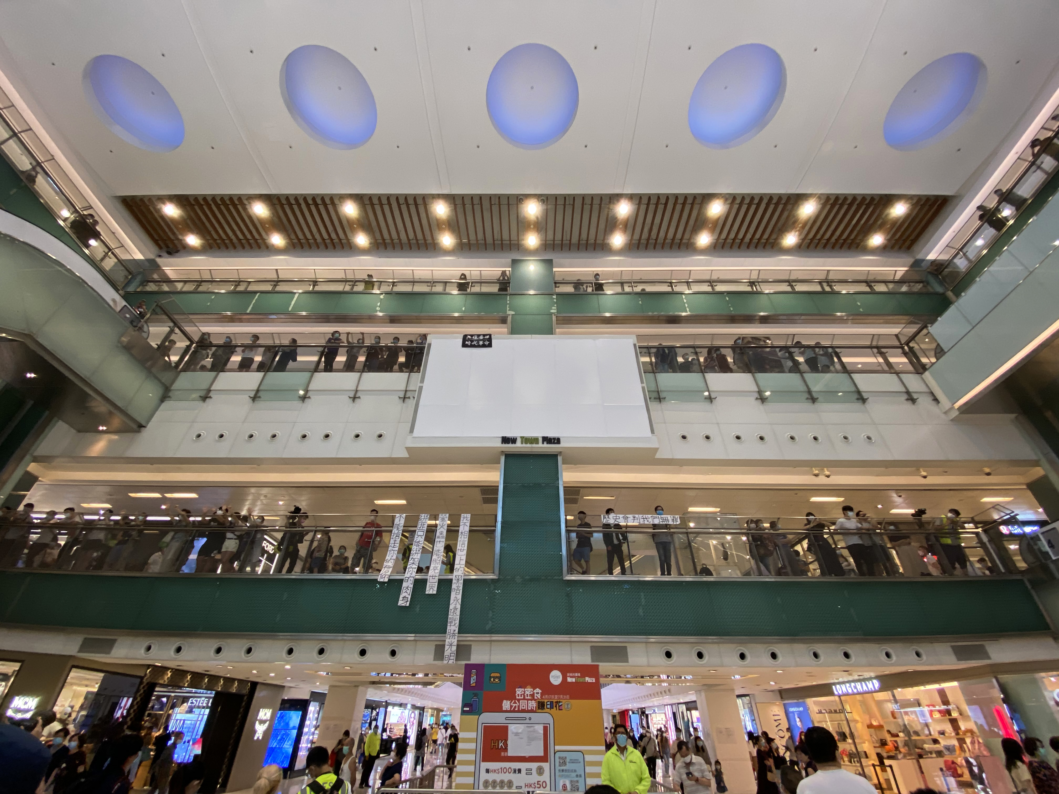 New Town Plaza Atrium people